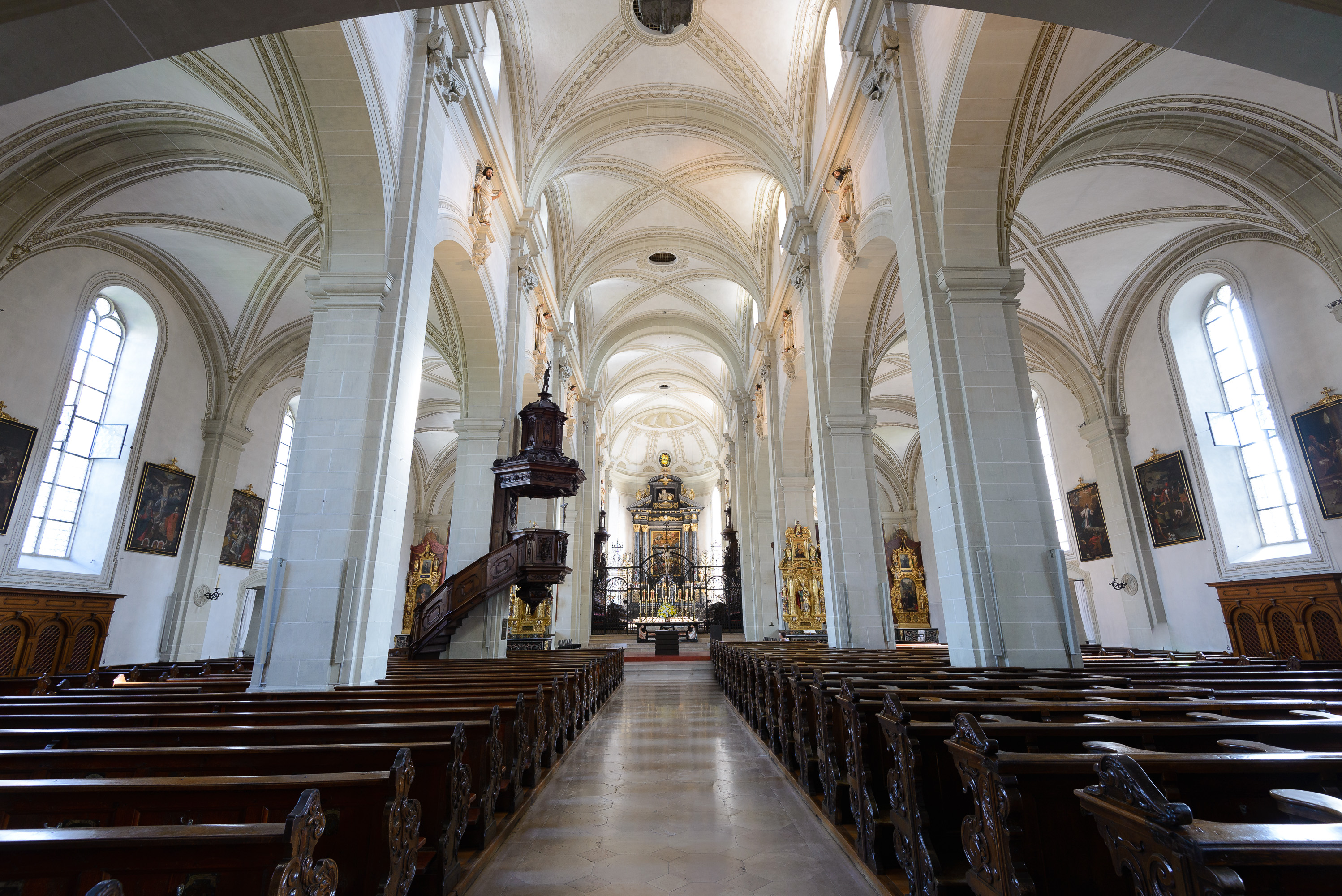 Stiftskirche St. Leodegar und Mauritius